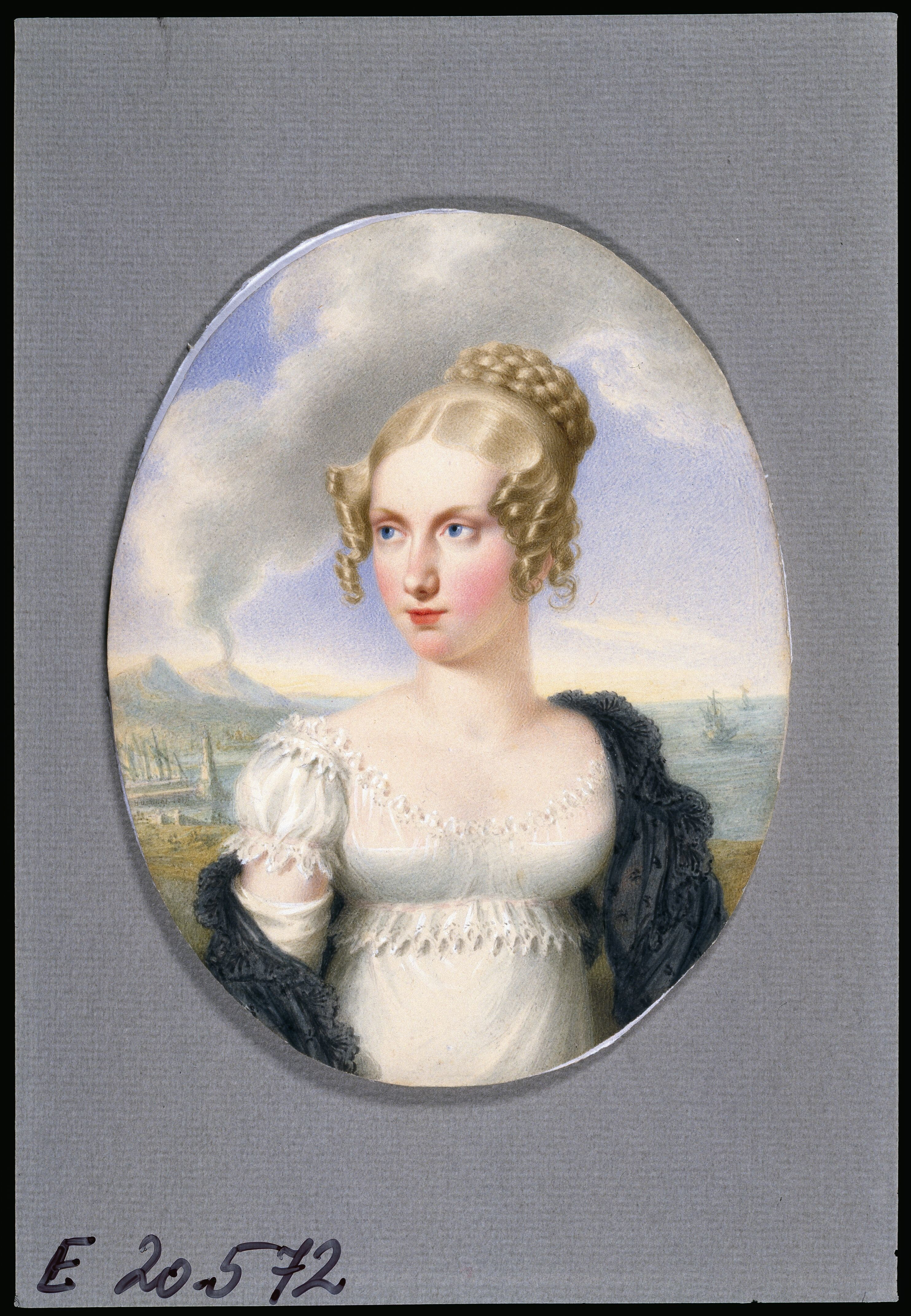 Archduchess Marie Clementine of Austria (1798-1881), Prinzess / Duchesse of Salerno, Daughter of Emperor Francis II.